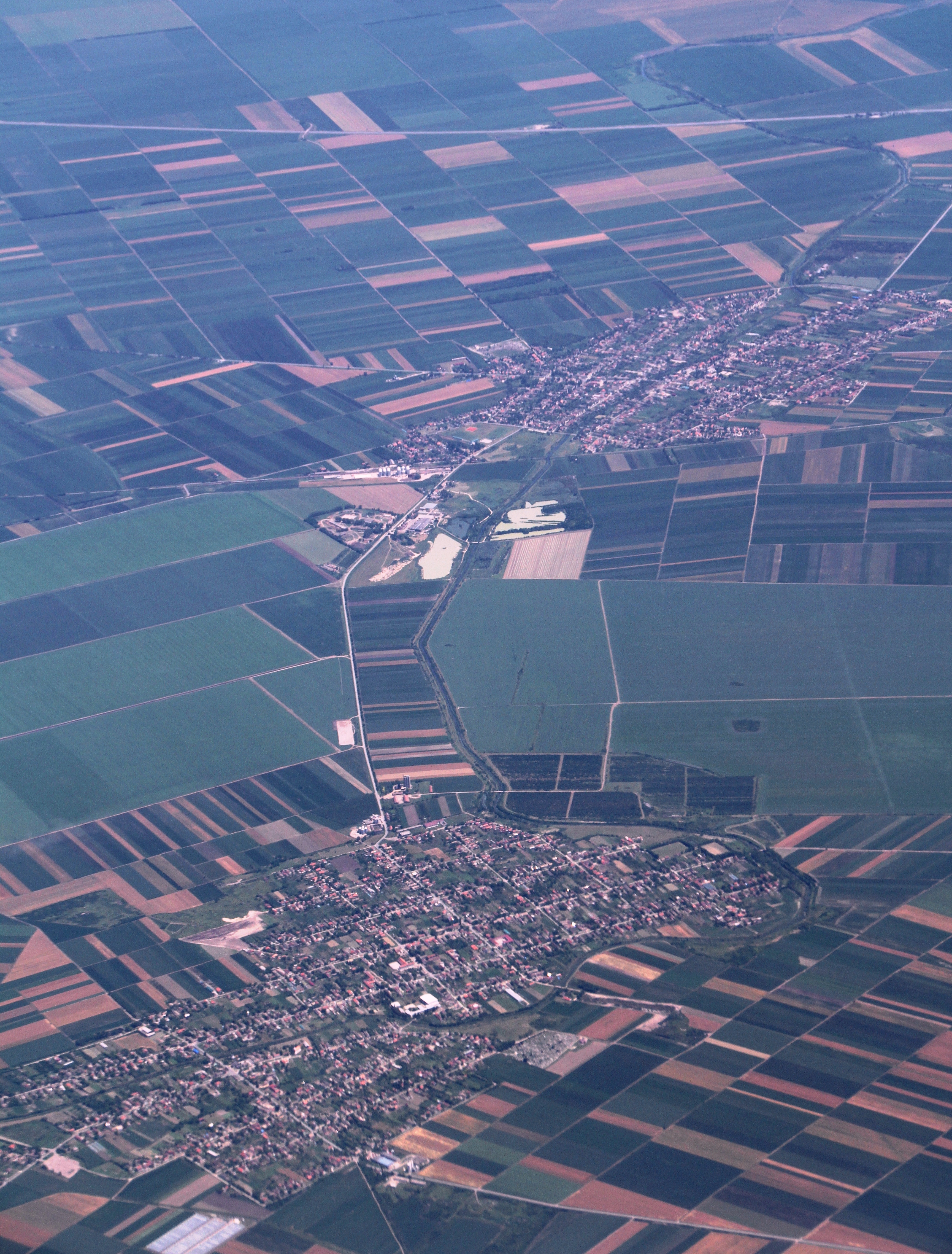 Aerial view from the west towards east, of Ravno Selo in Vojvodina, northern Serbia